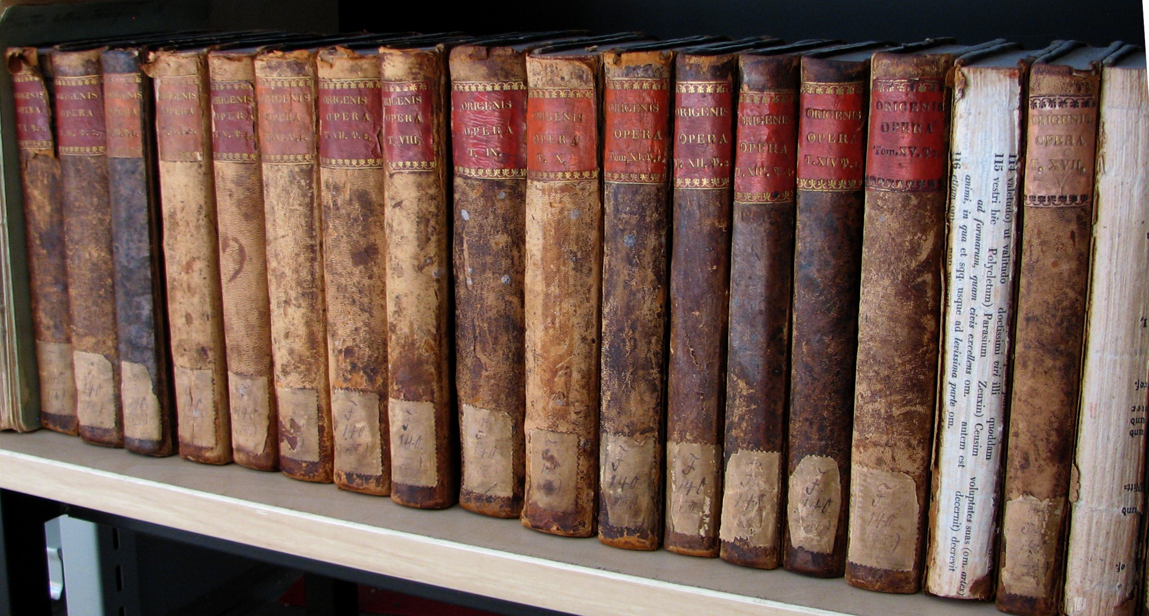 Origenis Opera. The works of Origen in Latin.